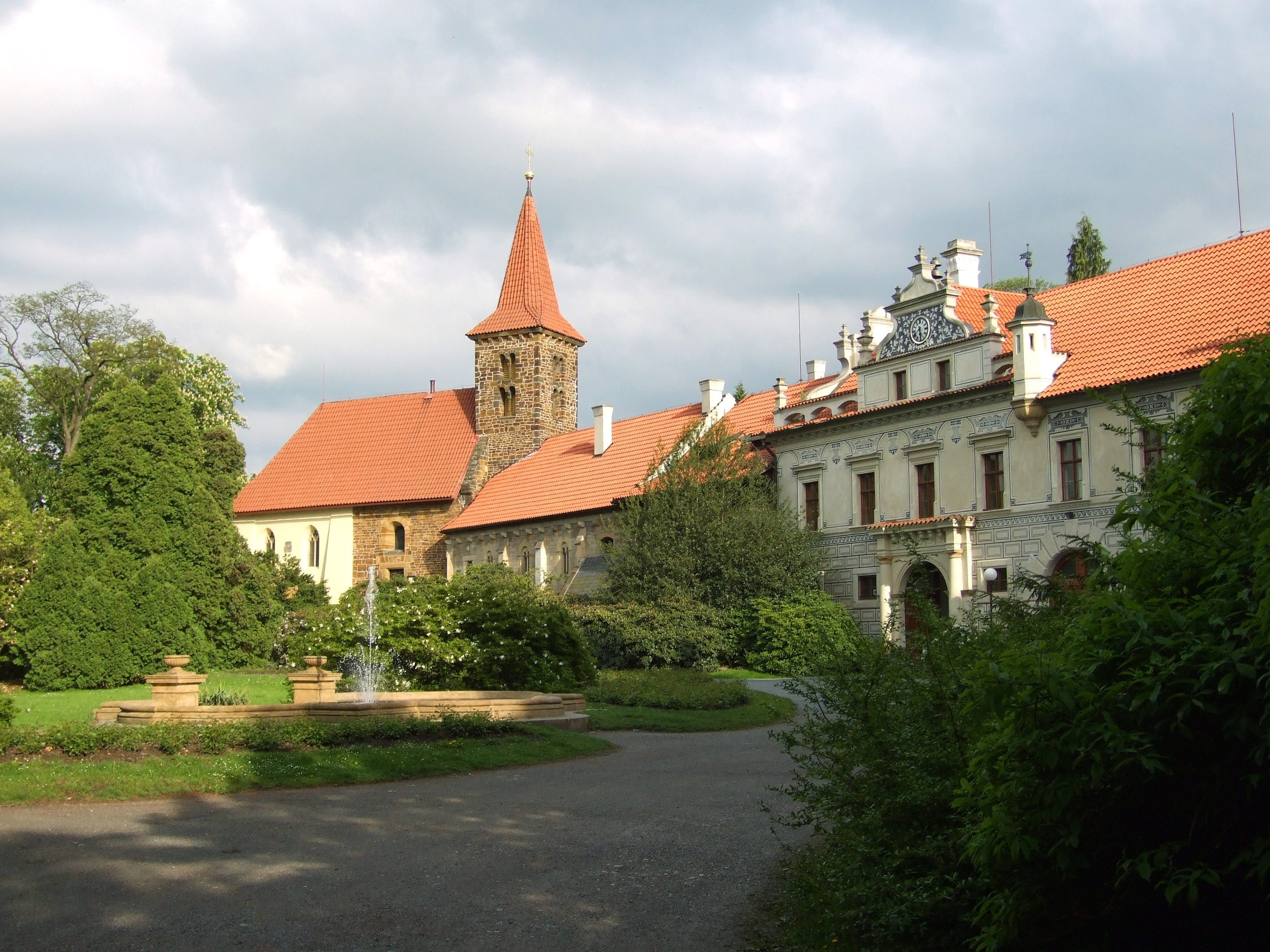 Průhonice chateau park near Prague, CZ